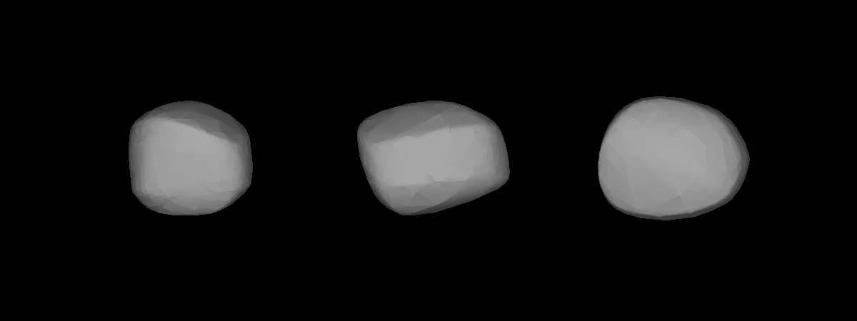 A three-dimensional model of 69 Hesperia that was computed using light curve inversion techniques.